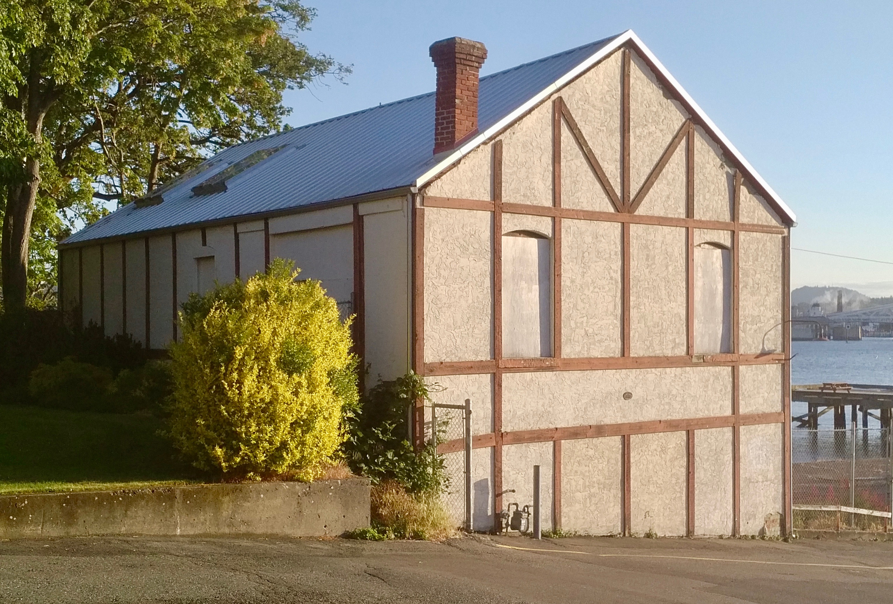 254 Belleville